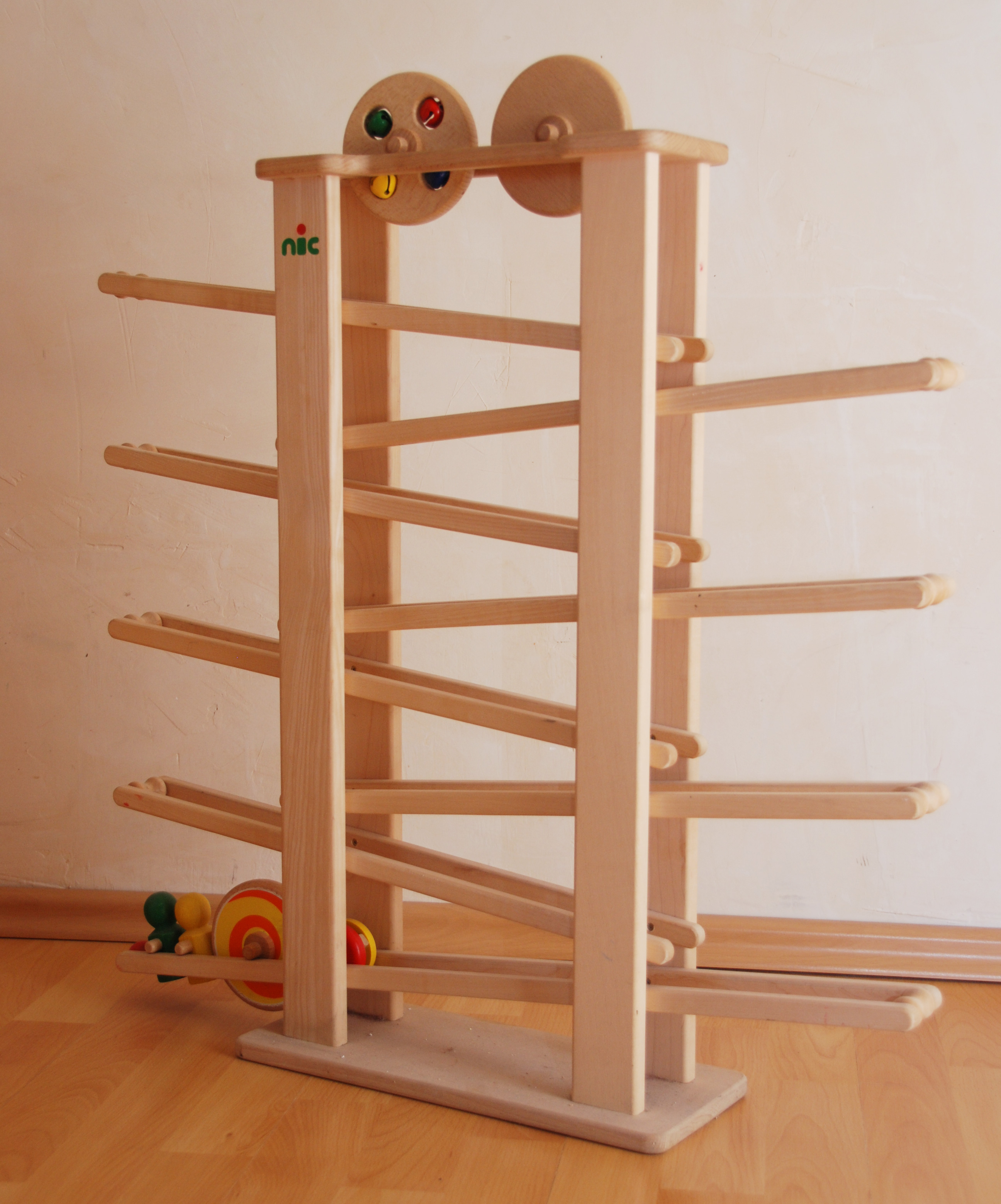 marble run